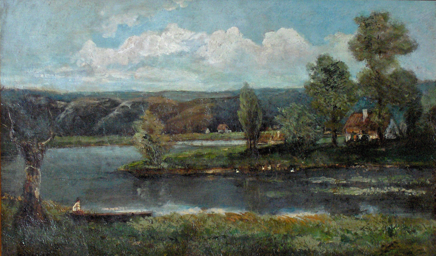 "Landscape with river", oil painting on canvas (38 x 68 cm) by Edmond De Schampheleer (1824-1899); private collection